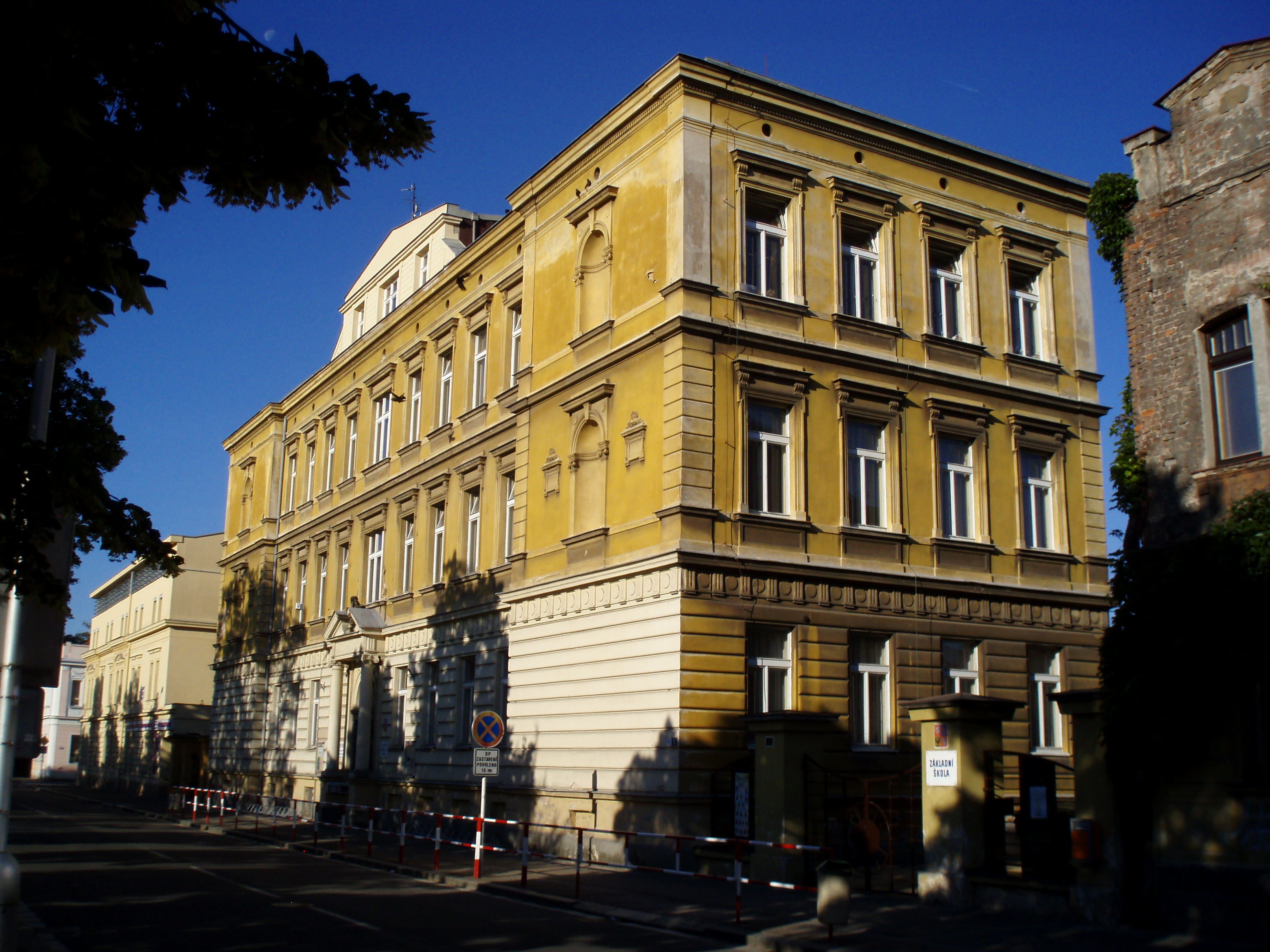 Primary Art School "Boni Pueri" in Hradec Králové (Czechia)